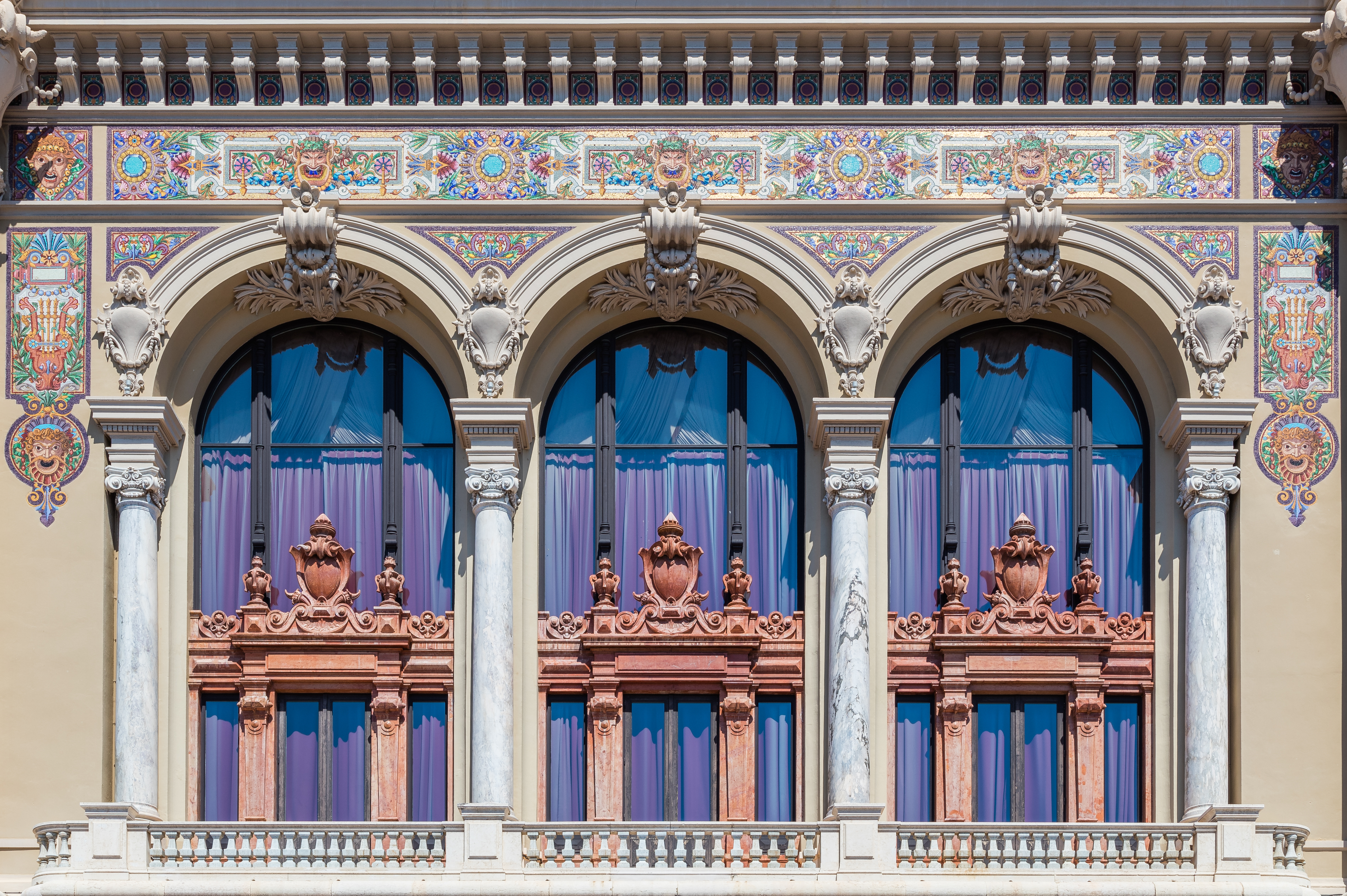 View of the south balcony heading to the Mediterranean Sea of the Monte Carlo casino in Monaco. The building hosts a casino, the Grand Théâtre de Monte Carlo and the office of Les Ballets de Monte Carlo. The construction followed the plans of Parisian architect Gobineau de la Bretonnerie and took 7 years to complete until it was inagurated in 1853. The casino is owned and operated by a public company, controlled by the government and ruling family, that also owns the principal hotels, sports clubs and restaurants, but does not allow the entrance to Monaco citizens.